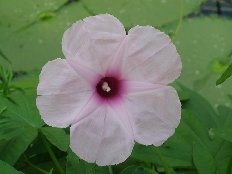 Ipomoea mauritiana flower in Kew Gardens, England.